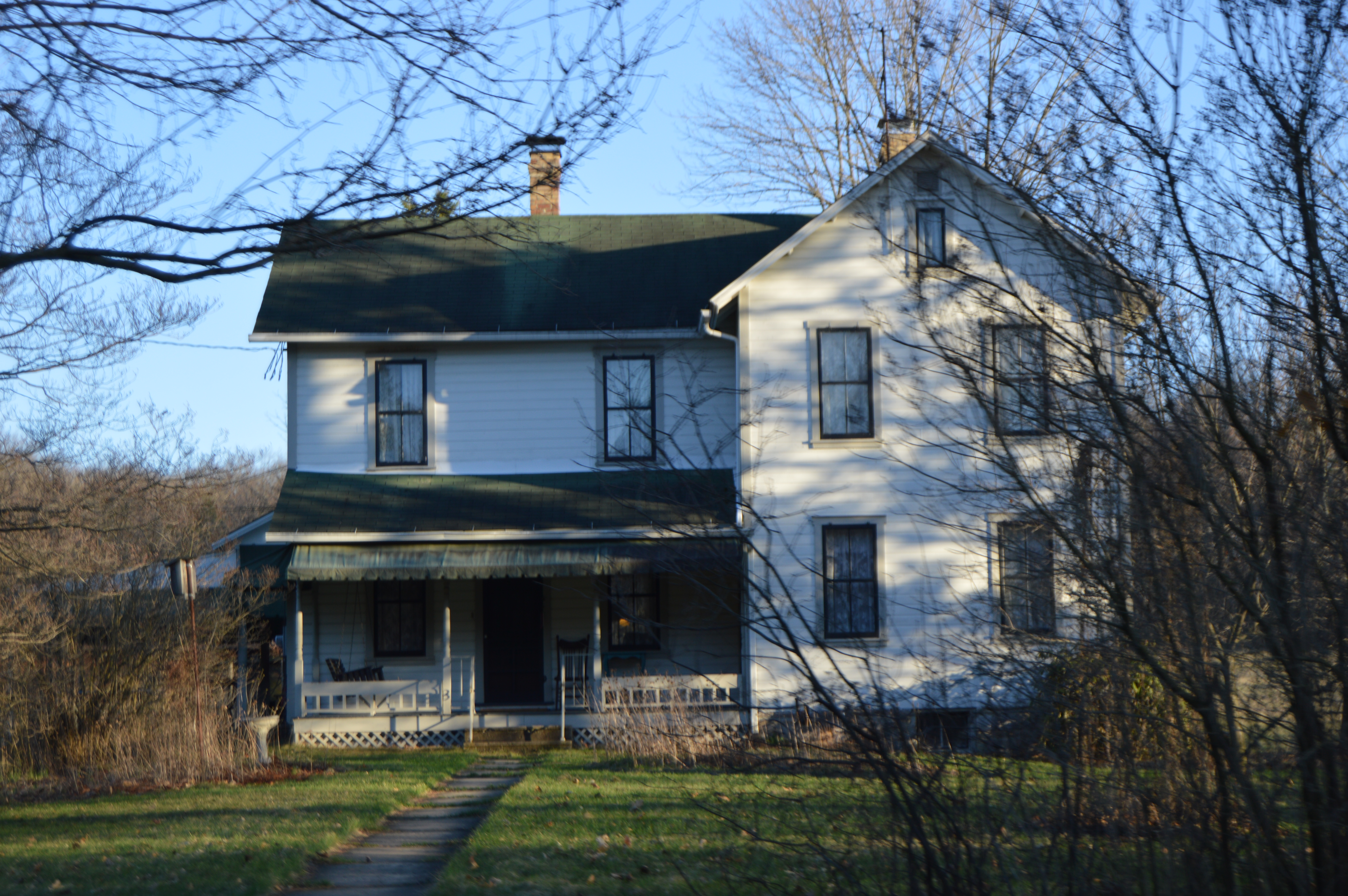 Roadside view of the Joseph F. and Anna B. Schrot Farmhouse, located at 880 Carbon Mine Road southwest of Clearfield in Lawrence Township, Clearfield County, Pennsylvania, United States. Built in 1891, it is listed on the National Register of Historic Places.